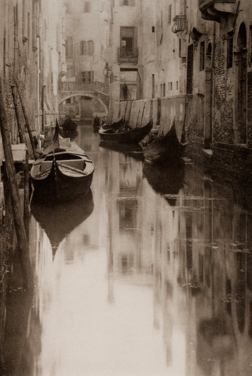 "Venetian Canal" (also called "A Bit of Venice") by Alfred Stieglitz